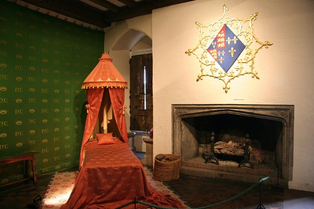 The Queen's Room State room in Leeds Castle